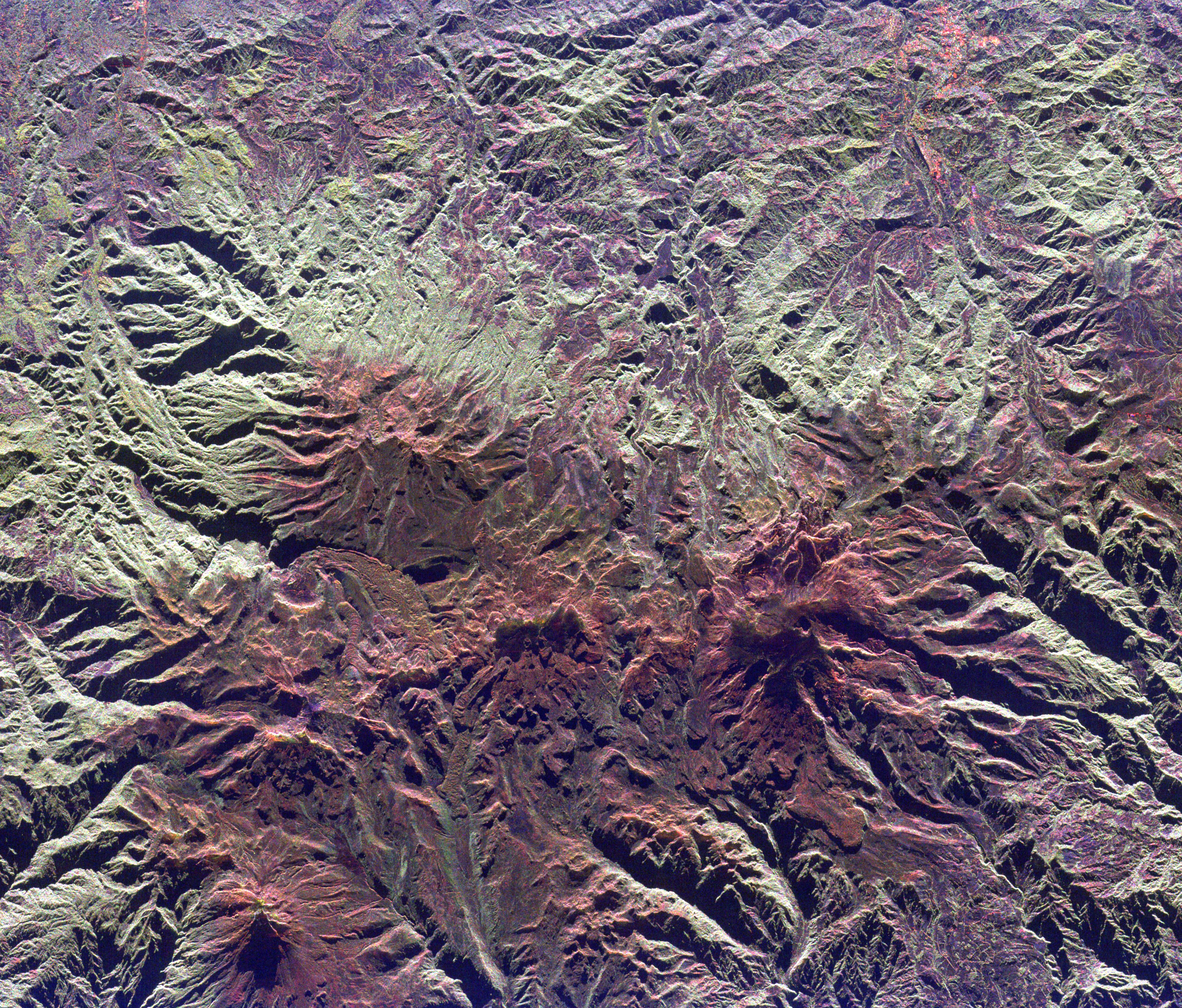 Space radar image of Nevado del Ruiz Original Caption Released with Image: This spaceborne radar image shows the Ruiz-Tolima volcanic region in central Colombia, about 150 kilometers (93 miles) west of Bogata. The town of Manizales, Colombia, is the pinkish area in the upper right of the image. Ruiz Volcano, also known as Nevado del Ruiz, is the dark red peak below and right of the image center. A small circular summit crater is visible at the top of Ruiz. Tolima Volcano is the sharp peak near the lower left corner of the image. The red color of the image is due to the snow cover and the lack of vegetation at high elevations in these volcanic mountains. Ruiz Volcano, at 5,389 meters (17,681 feet) elevation, is capped by glaciers. In 1985, an explosive eruption melted parts of these glaciers, triggering mudflows along narrow canyons on the sides of the volcano. The town of Armero, located just off the right side of the image, was buried by mud and 21,000 residents were killed. Scientists are using radar images of these remote yet dangerous volcanoes to understand the threats they pose to local populations. The image was acquired by the Spaceborne Imaging Radar-C/X-band Synthetic Aperture Radar (SIR-C/X-SAR) onboard the space shuttle Endeavour on April 14, 1994. The image is centered at 4.8 degrees north latitude and 75.3 degrees west longitude. North is toward the upper right. The image shows an area 40 kilometers by 48 kilometers (24.8 miles by 29.8 miles). The colors are assigned to different frequencies and polarizations of the radar as follows: red is L-band, horizontally transmitted, horizontally received; green is L-band, horizontally transmitted, vertically received; blue is C-band, horizontally transmitted, vertically received. SIR-C/X-SAR, a joint mission of the German, Italian and United States space agencies, is part of NASA's Mission to Planet Earth program.